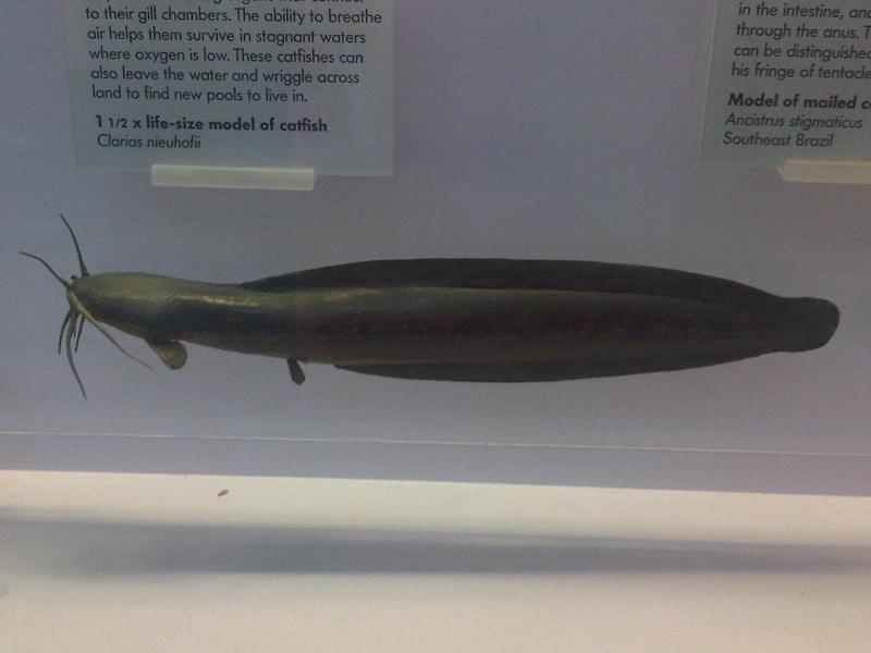 Slender walking catfish (Clarias nieuhofii) model at the Natural History Museum in London, England.